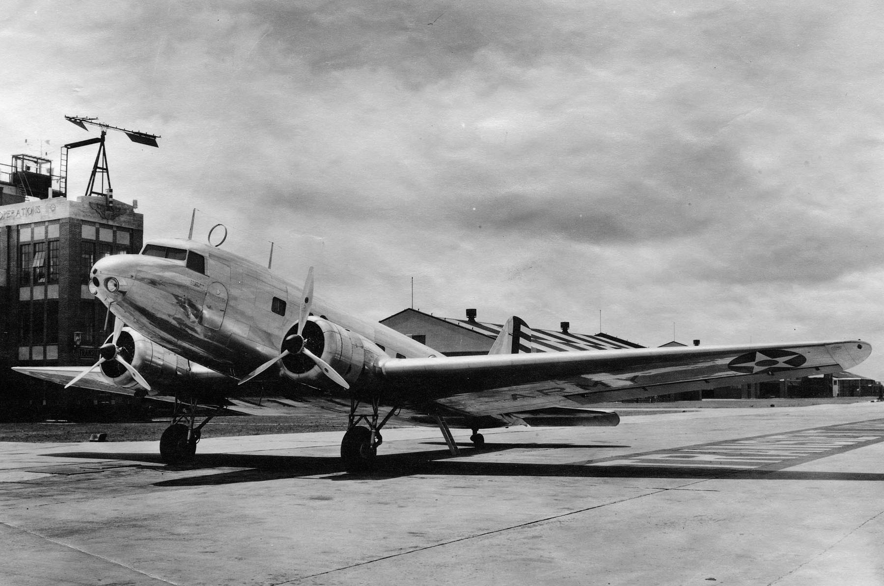 Douglas C-32 at Langley Field near base operations